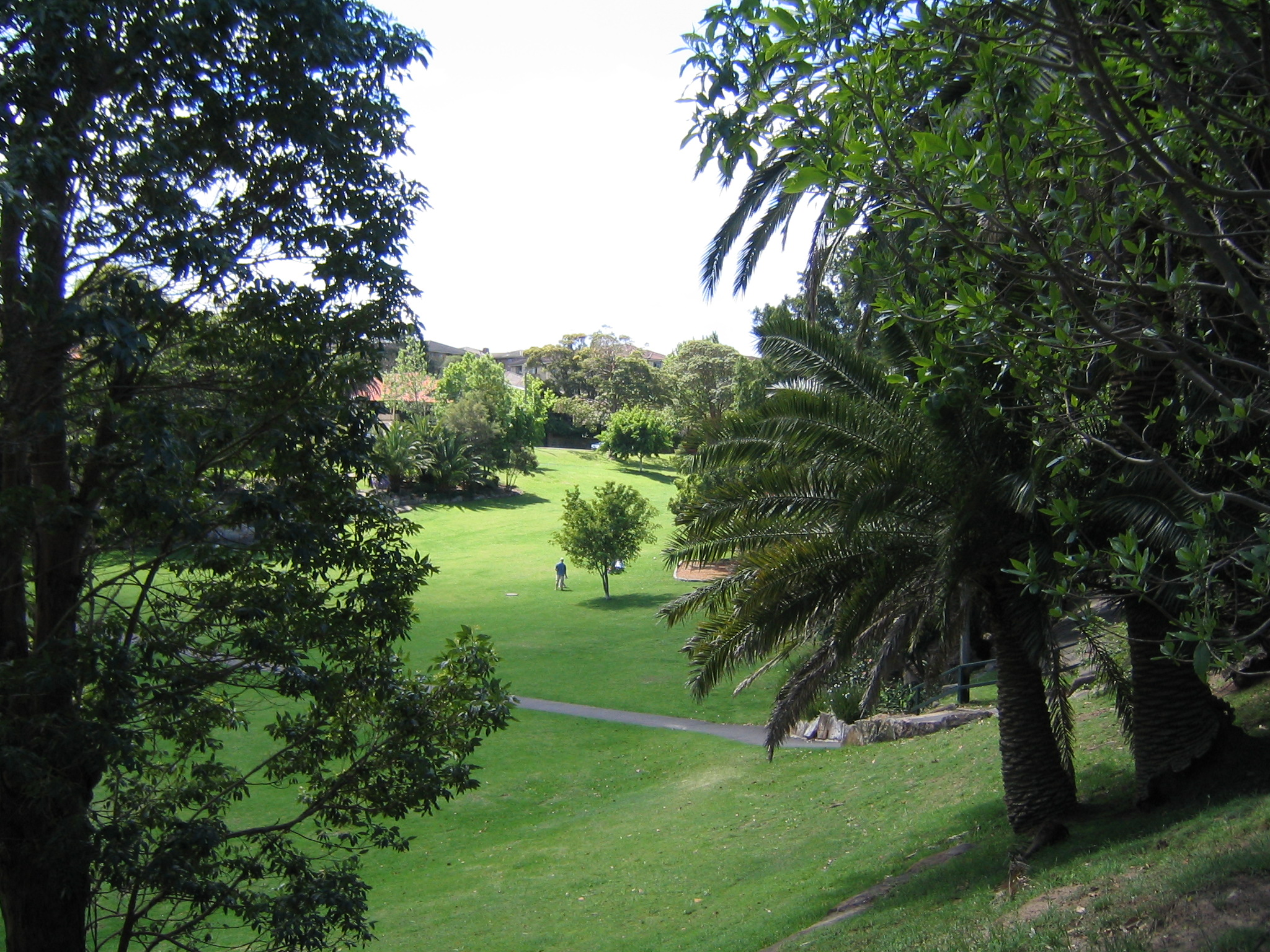 Brennan Park in the Suburb of Wollstonecraft, Sydney, Australia. A view across the park.